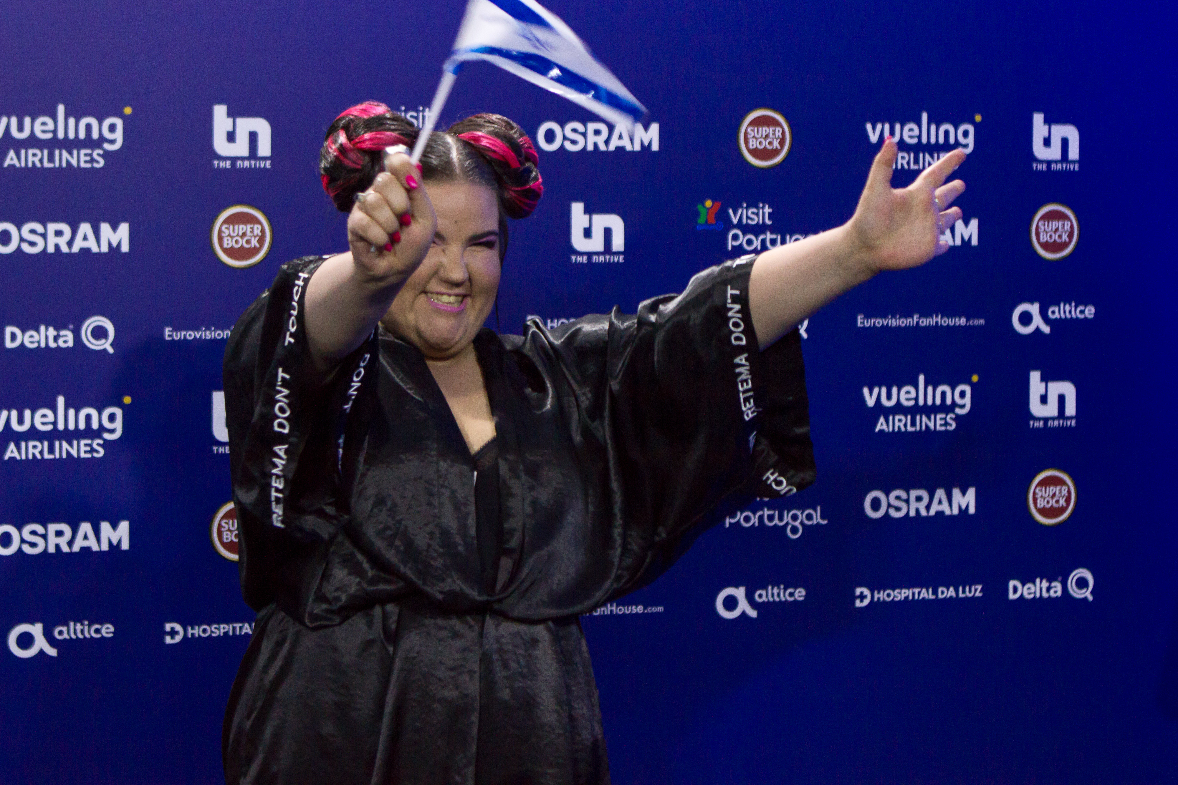 Press conference after the first Semi-Final of the 2018 Eurovision Song Contest